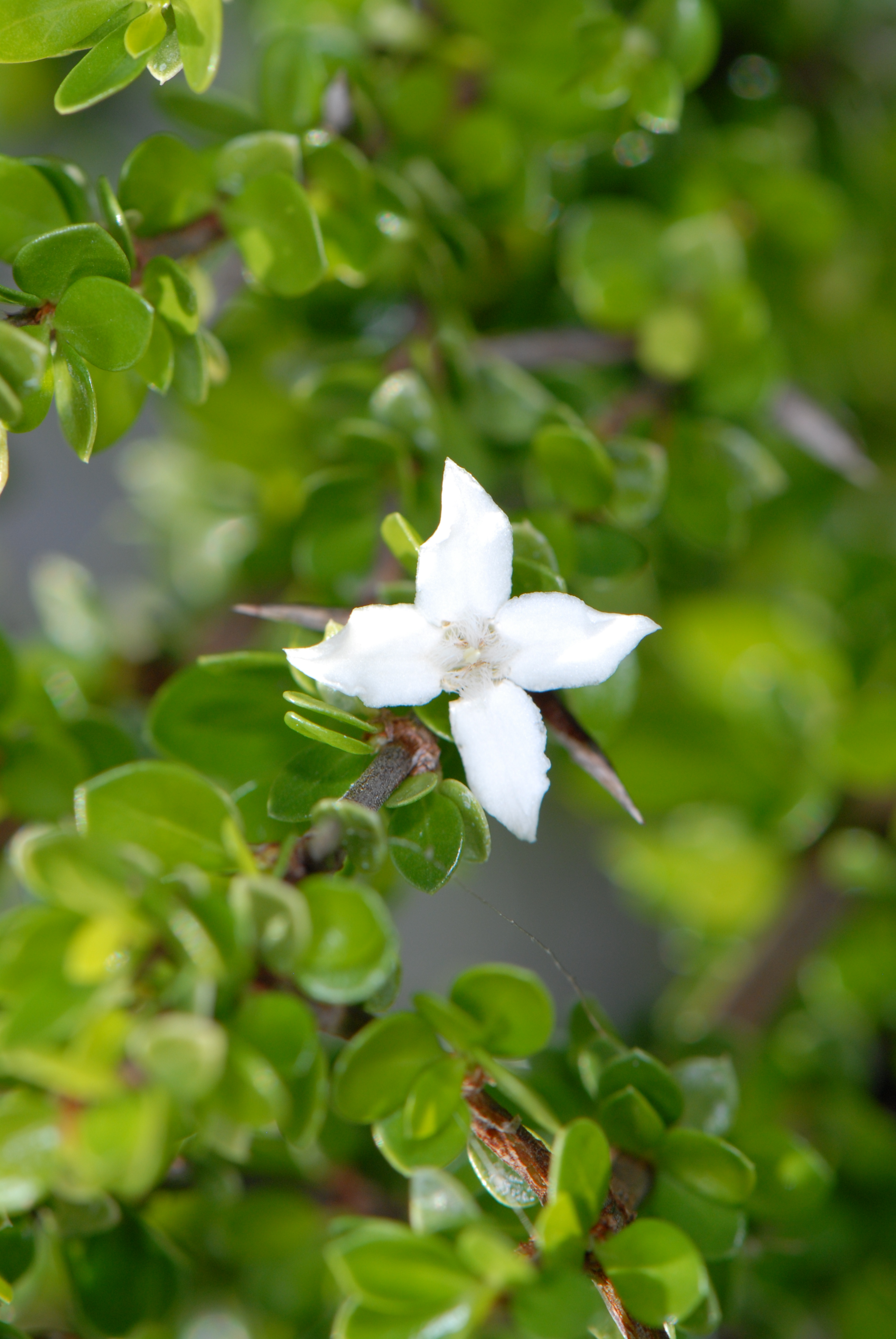 Box briar, Randia aculeata, Save Open Spaces nursery, Devonshire, Bermuda